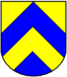 Coat of arms of Bussnang, Canton of Thurgau, SwitzerlandEsperanto: Blazono de Bussnang, Kantono Turgovio, Svislando